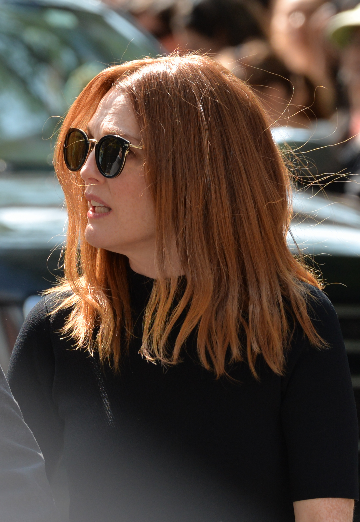 TIFF 2017 Julianne Moore